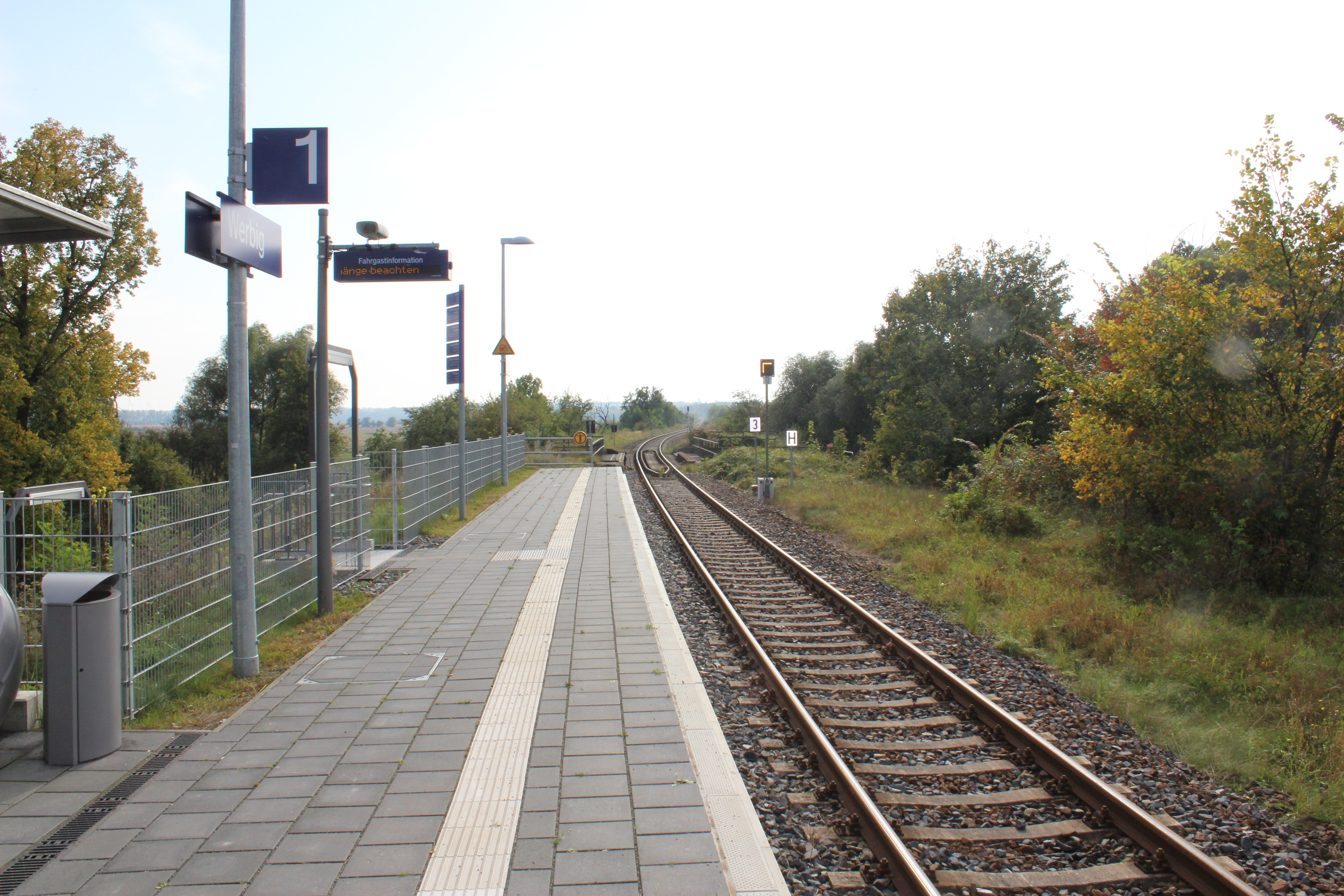 train station Werbig, higher platform